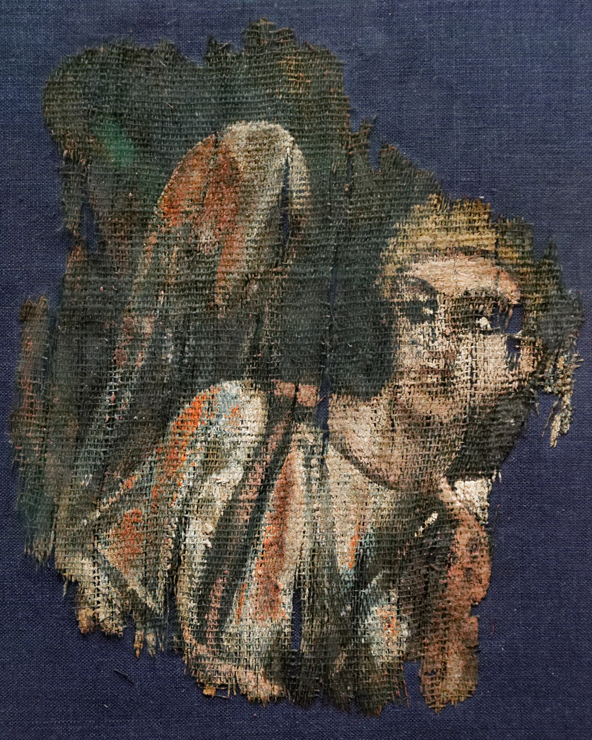 Angel, late Roman or early Byzantine period.